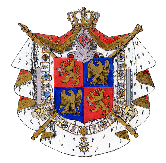 Sumario Coat of arms of the kingdom of holland Escudo de armas del reino de holanda Under the power of Louis Bonaparte Bajo el poder de Luis Bonaparte